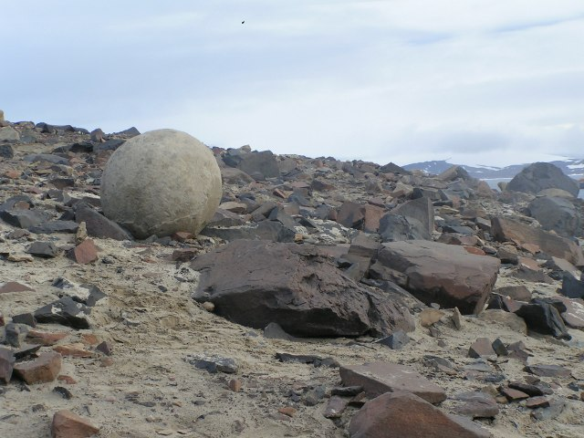 Geode on Champ Island, Franz Josef Land, Russia